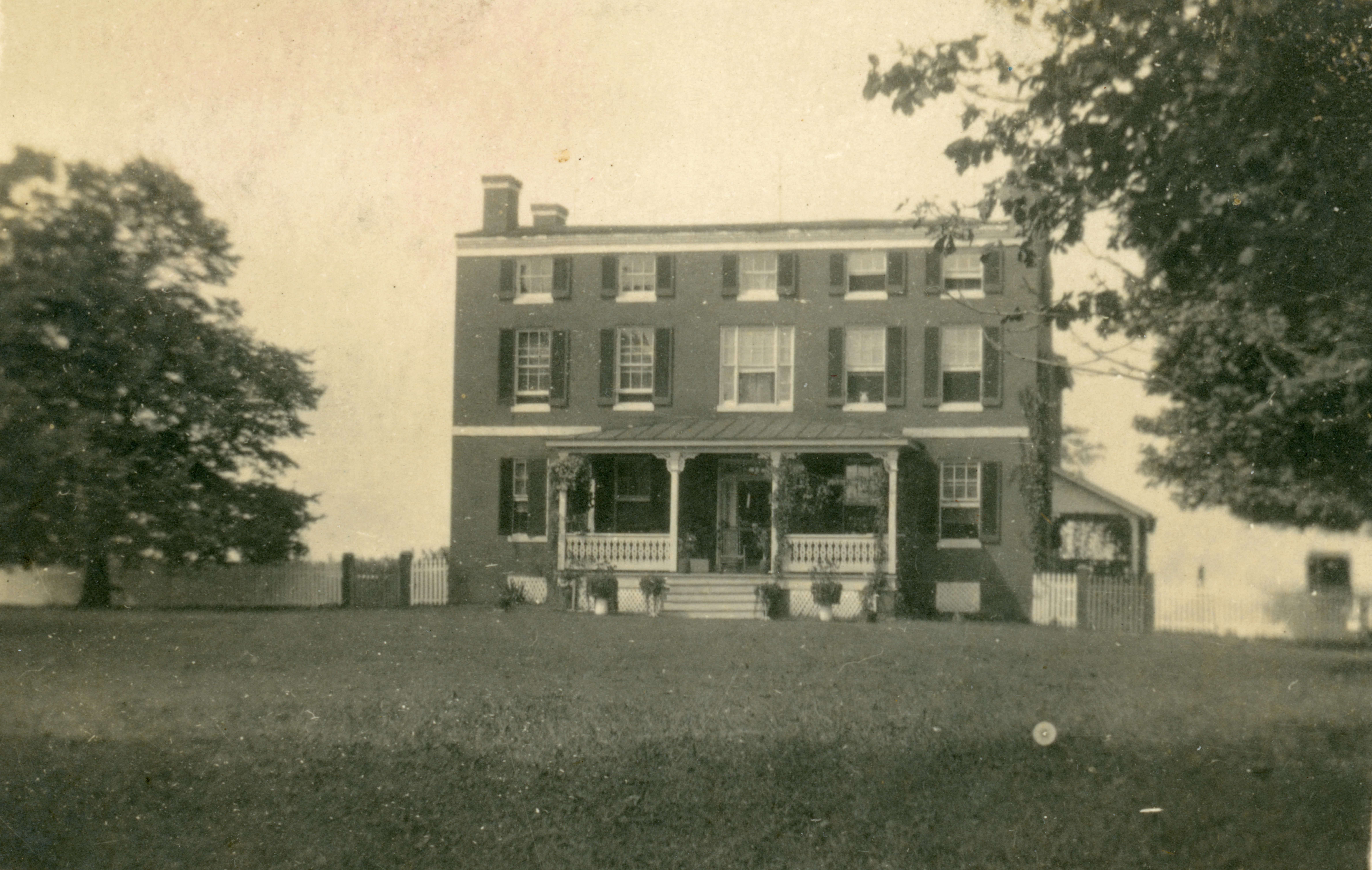 This is the earliest known photograph of the Stoopley Gibson manor postmarked in 1907. This image shows the house after the wooden wing was removed but prior to the 1920s renovation with the kitchen addition.